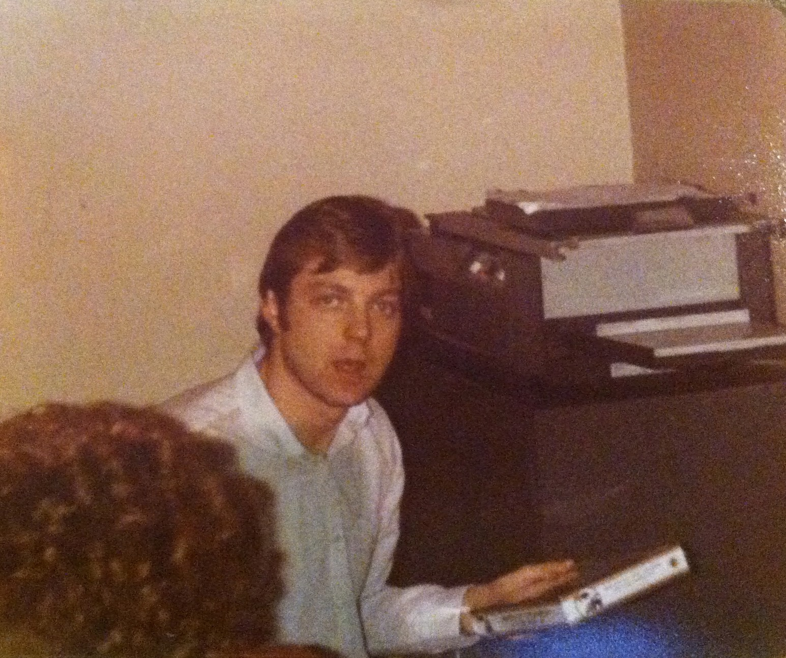 Photograph: A young Fr. Pfleger in the rectory